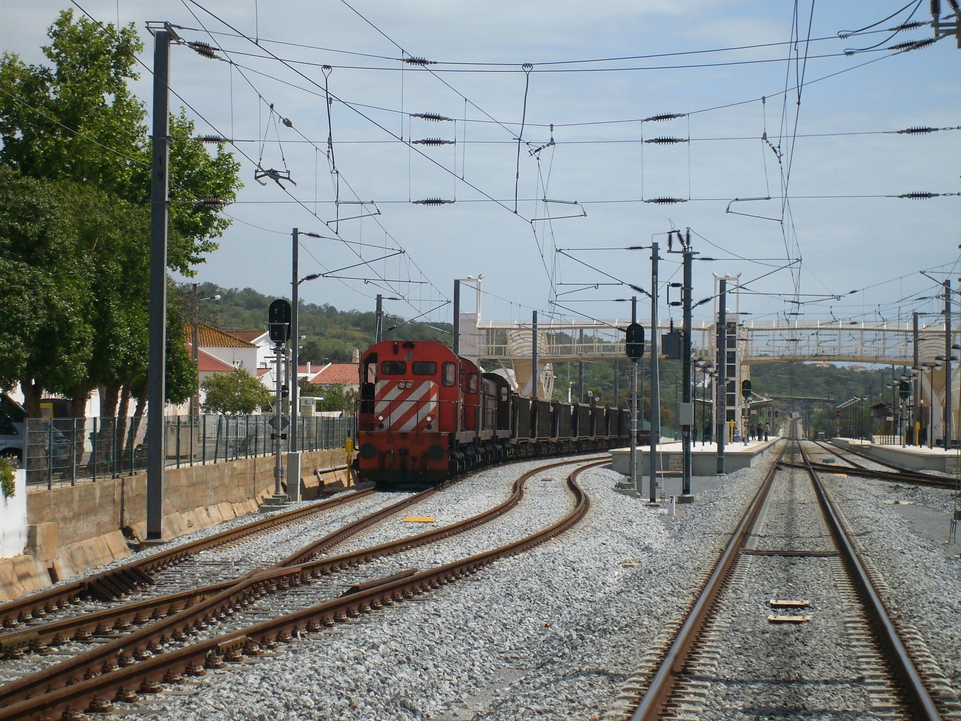 Tunes Train Station, Tunes, Silves, Portugal.